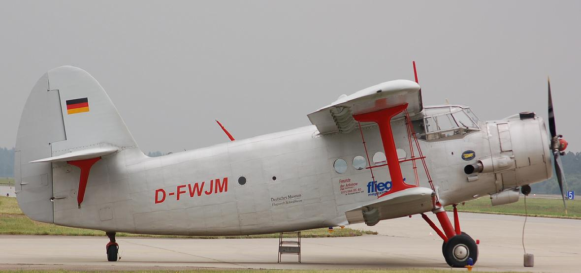 Antonov An-2 Photo Jean-Patrick Donzey